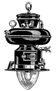 Petromax 834